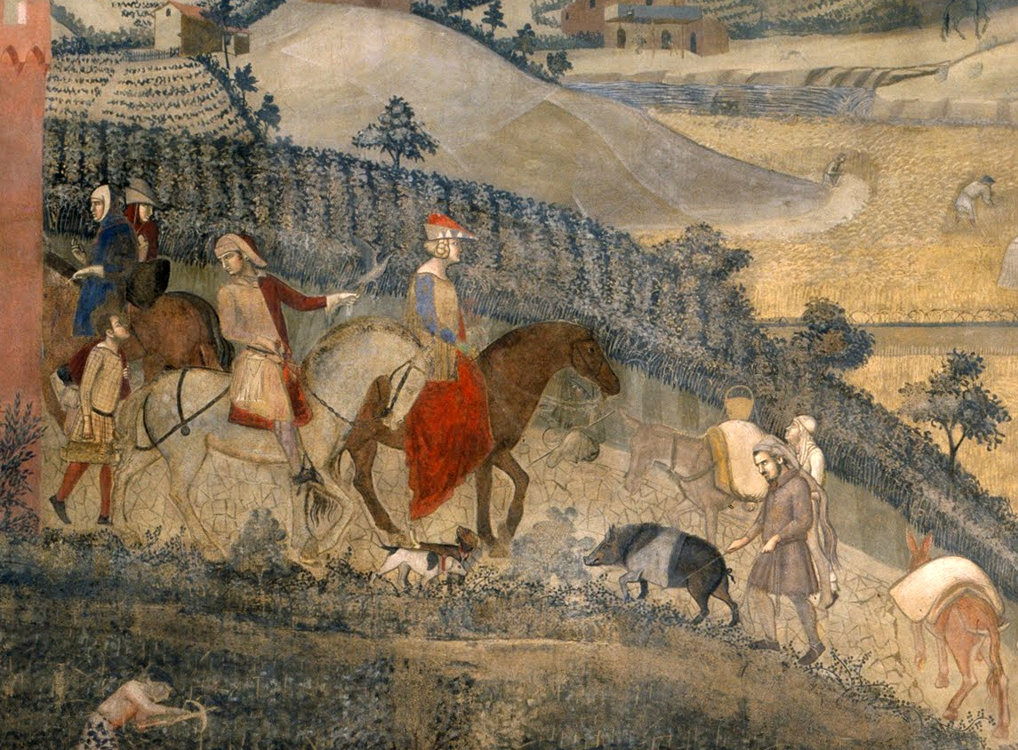 Ambrogio Lorenzetti, La città del buon governo. Detail, showing among other things a Cinta senese pig. Derived from File:Ambrogio Lorenzetti - Effects of Good Government in the countryside - Google Art Project.jpg with thanks.